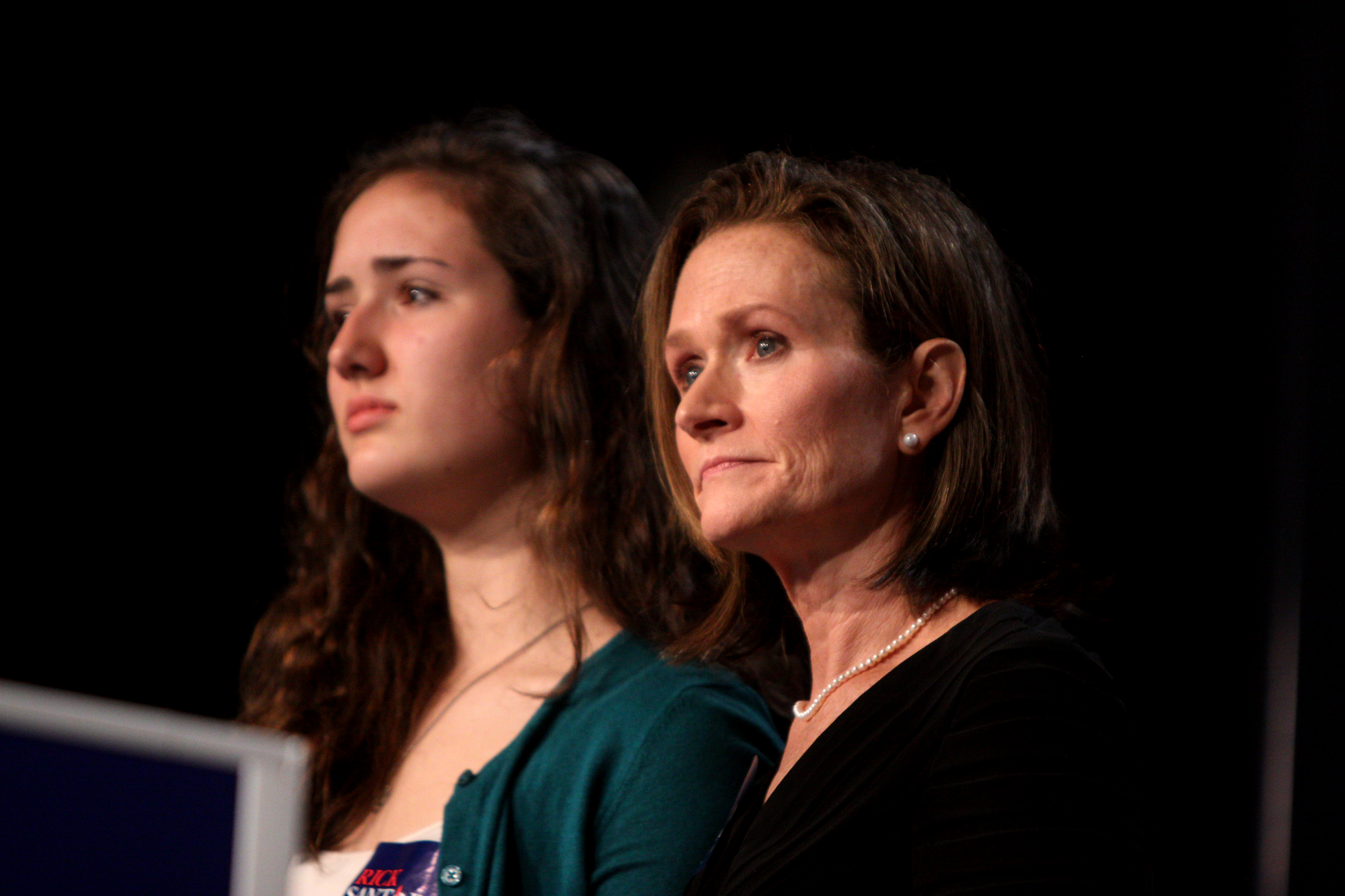 Karen Santorum, wife of former Senator Rick Santorum, at the Values Voter Summit in Washington, DC.